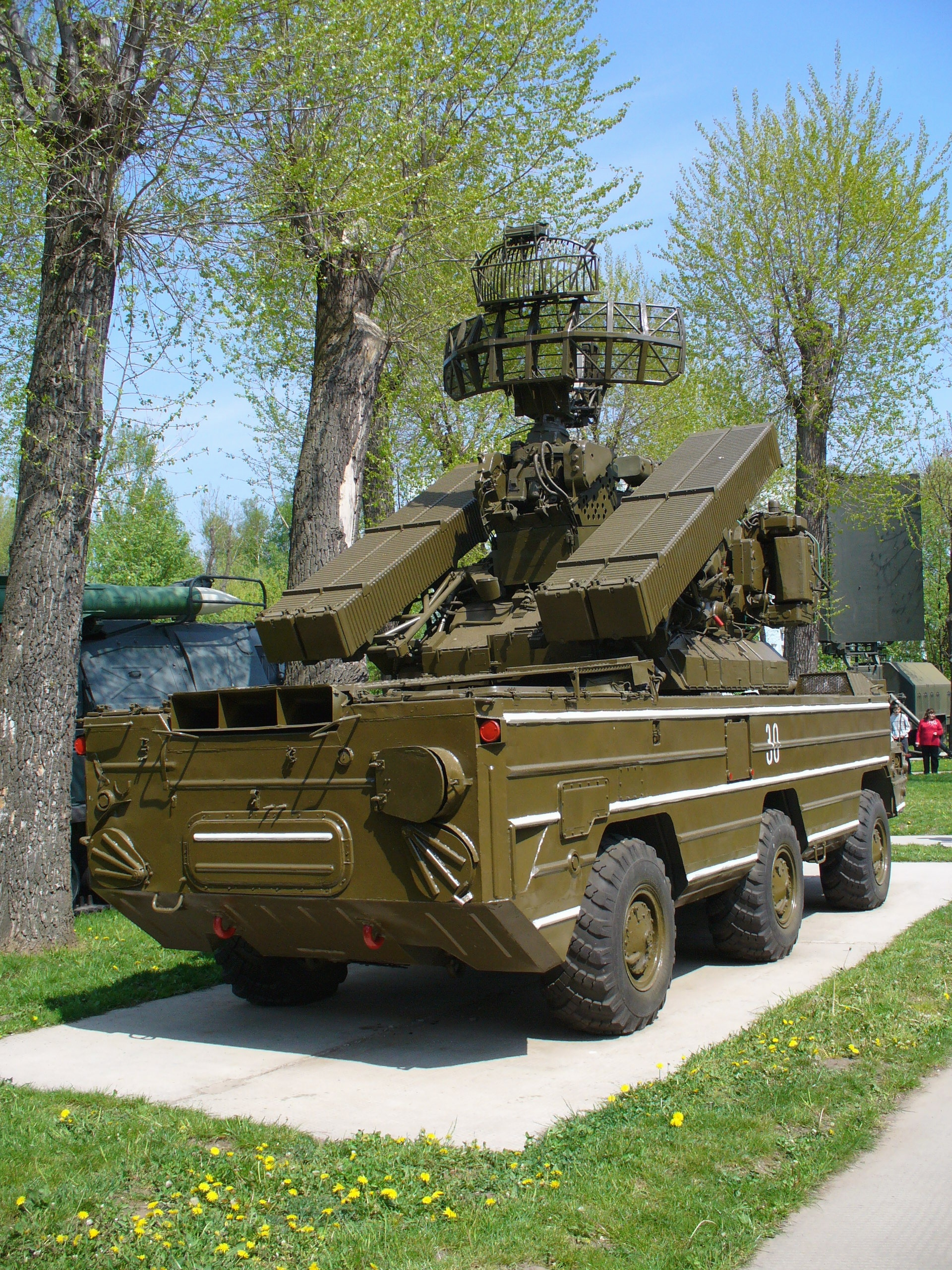 9K33M3 "OSA-AKM" (US DoD designation SA-8B "Gecko Mod-1"). Ukrainian Air Force Museum in Vinnitsa